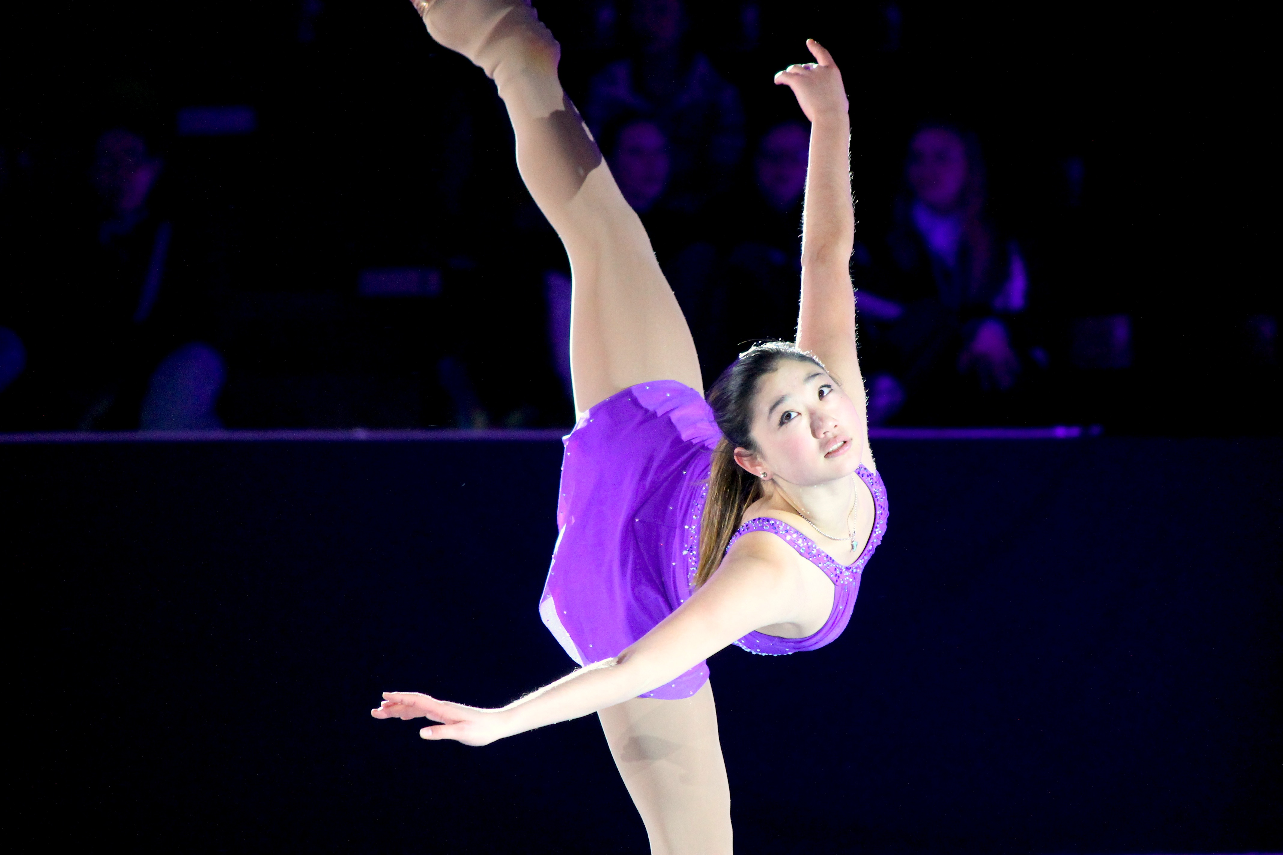 Mirai Nagasu skating in Ice Chips 2012 - Hosted by The Skating Club of Boston at Harvard's Bright Arena